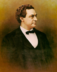 Samuel Jackson Randall中文（中国大陆）: 第33任美国众议院议长塞缪尔·J·兰德尔（1828－1890），由William A. Greaves于1891年所绘。